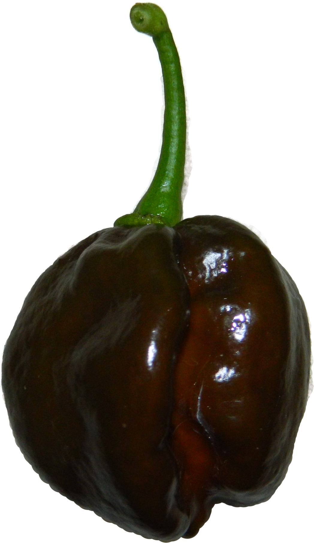 Chocolate habanero, Capsicum chinense. The fruit does not taste like chocolate; more like citrus with undertones of wood and earth.